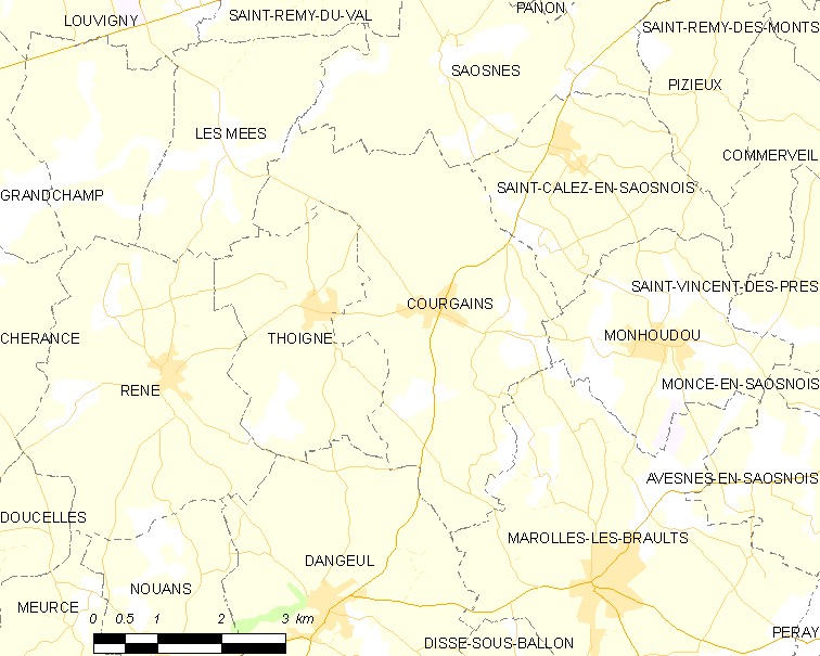 Map of French municipality